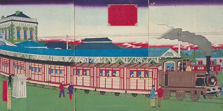 "Tokyo Famous Places: Steam Train at Shimbashi Station" (東京名所新橋ステンション蒸気車之図) by Hiroshige III